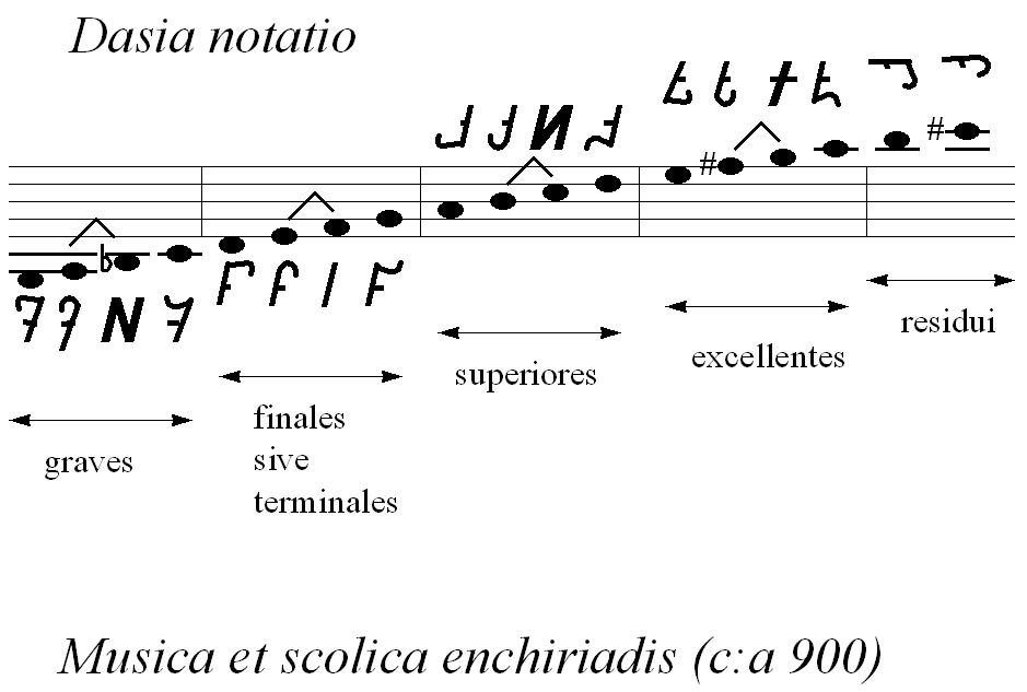 Dasia notation - symbols Zman 14:10, 5 June 2006 (UTC)